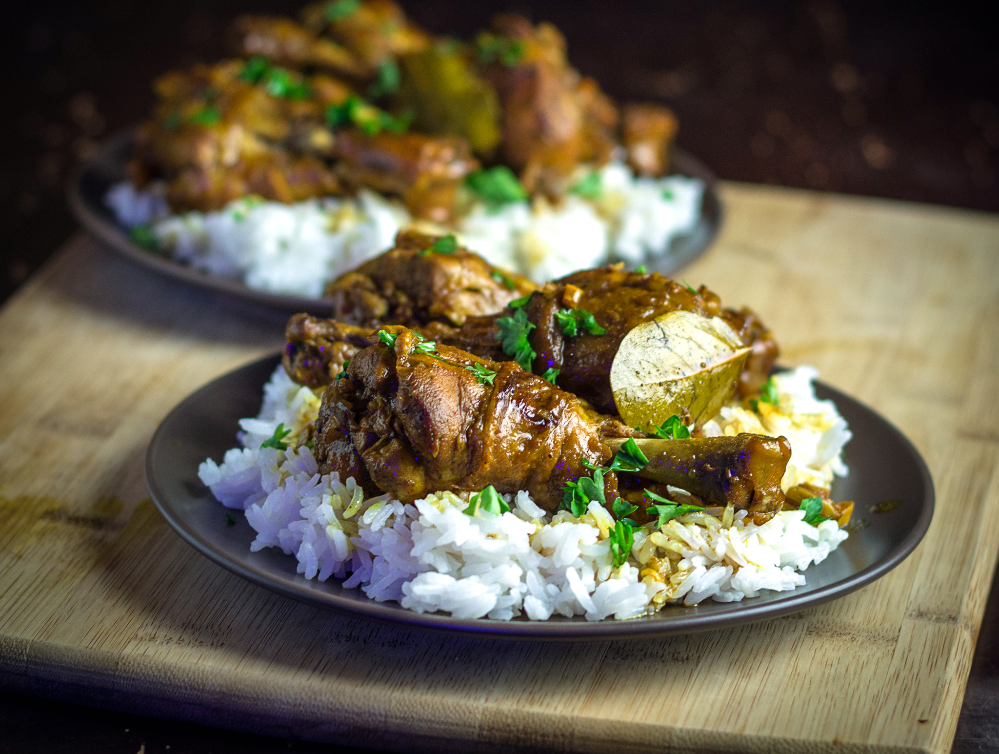 Chicken Adobo over rice, a favorite.